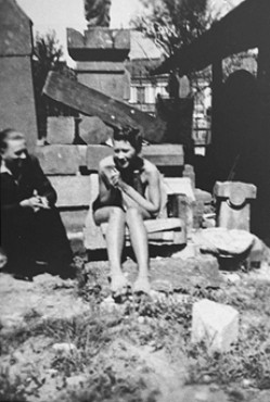 Zofia Baniecka, Polish World War II Resistance fighter, in Warsaw. Rescued over 50 Jews in her home from the Holocaust between 1941 and 1944. Photo date: 1939. Locale: Warsaw, Poland.